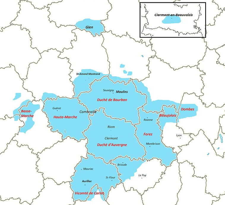 Duchies of Bourbon and Auvergne during the reign of the Duke of Bourbon Charles III. Duchés de Bourbon et d'Auvergne sous le règne de Charles III de Bourbon.